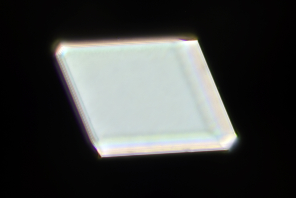 Magnesium sulfate heptahydrate, rhombic, microscopic image in polarized light